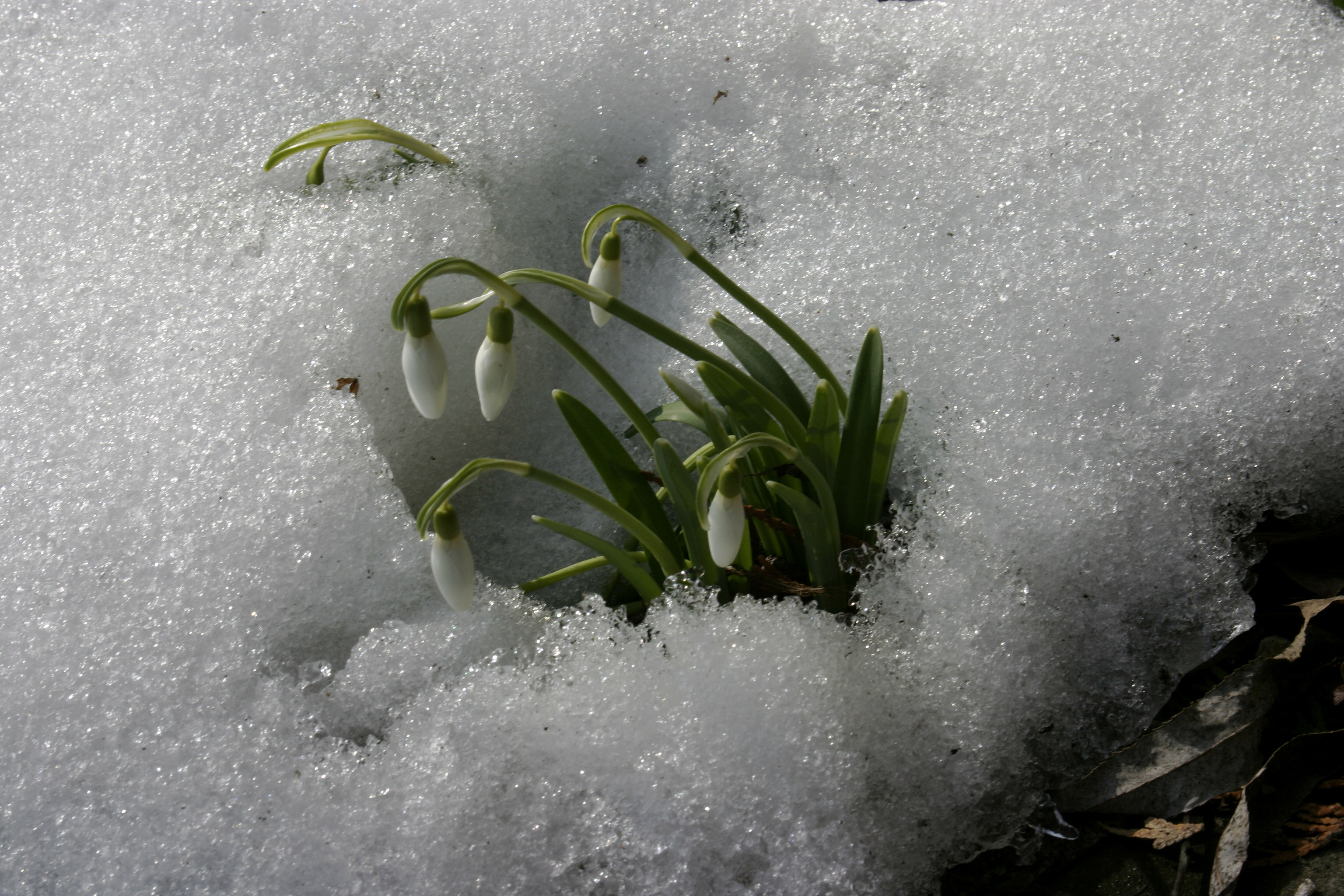 Galanthus nivalis - Snowdrop